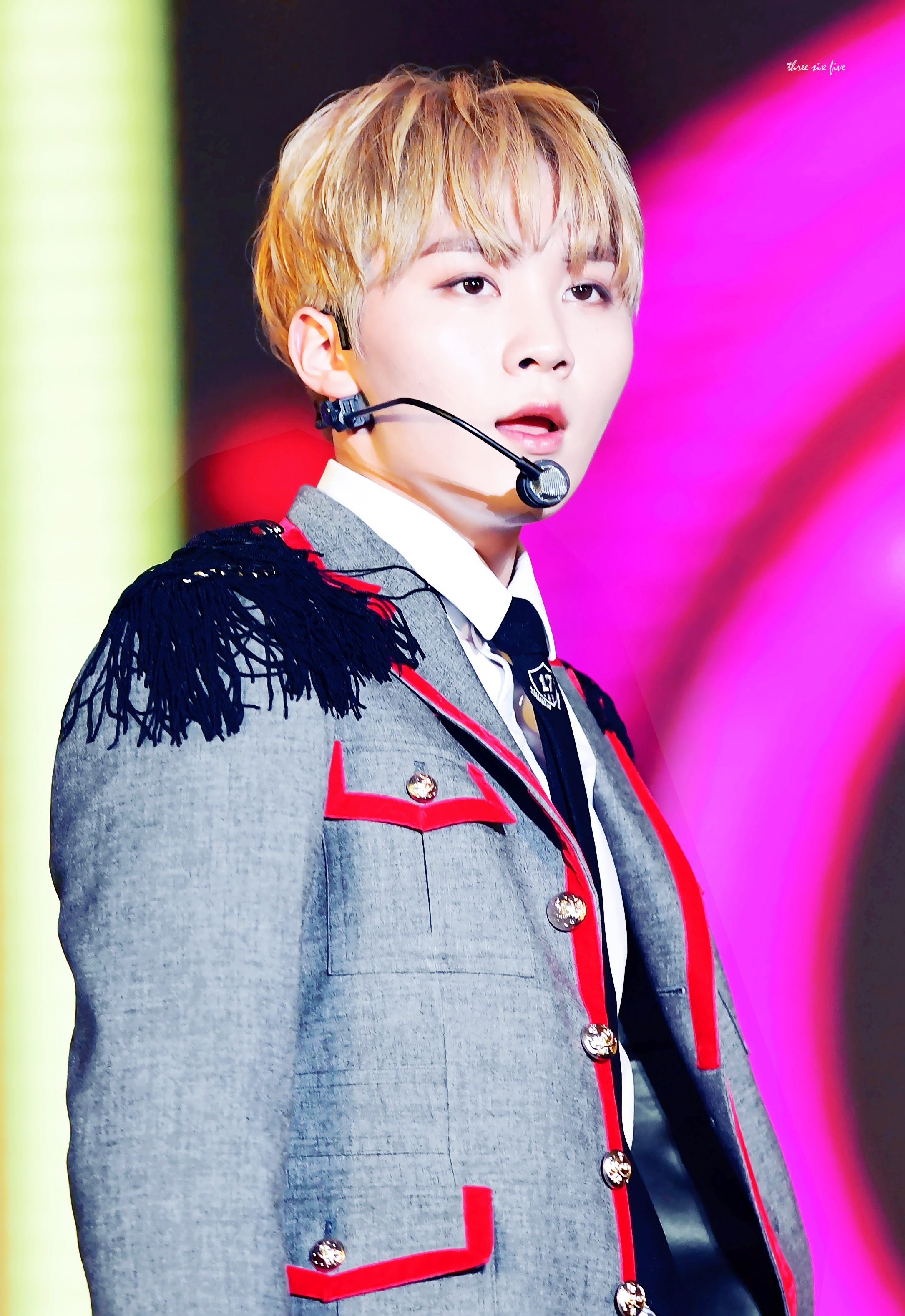 Boo Seung-kwan performing at SBS Gayo Daejeon on December 26, 2016